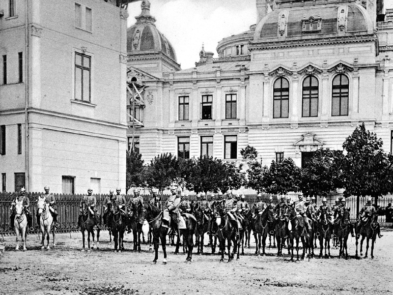 Back view of the CEC Palace and the royal guard. Source and author Author: Alexandru Antoniu (1860–1925) DescriptionRomanian photographerDate of birth/death circa 1860 1925Work period1890–1904Work location BucharestAuthority control : Q33132969 creator QS:P170,Q33132969 Source: Album general al României - compus din 300 tablouri reprezentând monumentele istorice Ÿşi contimporane, posiţiuni pitoresci, Domeniul Coroanei şŸi costume naţionale cu descrierea istorică şi pitorească, Dresden: C.G.Räder, 1901-1904